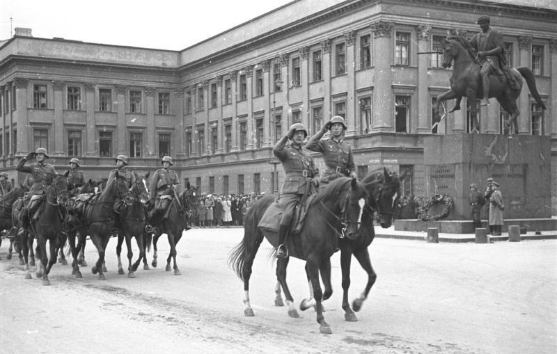 German horse artillery from the 1st Cavalry Division parading by the Saxon Palace in Warsaw, Poland, in 1939